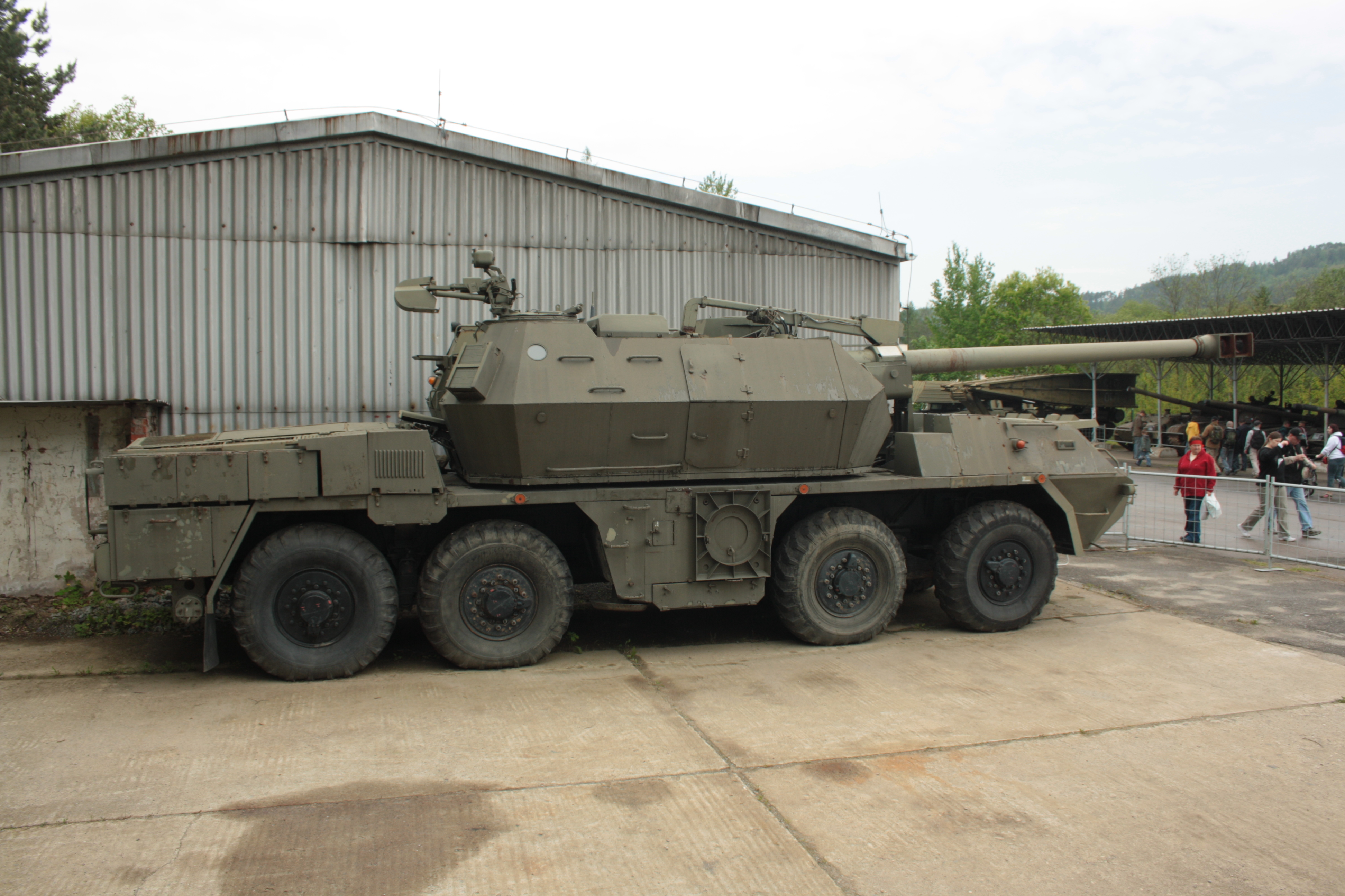 Czechoslovak Ondava howitzer, modernized version of older (and better known Dana) in Lešany military museum, Central Bohemian Region, CZ This photograph was taken with a DSLR from WMCZ's Camera grant. This picture was taken and/or got within the scope of the 'Acquiring scientific and specialized pictures' grant.